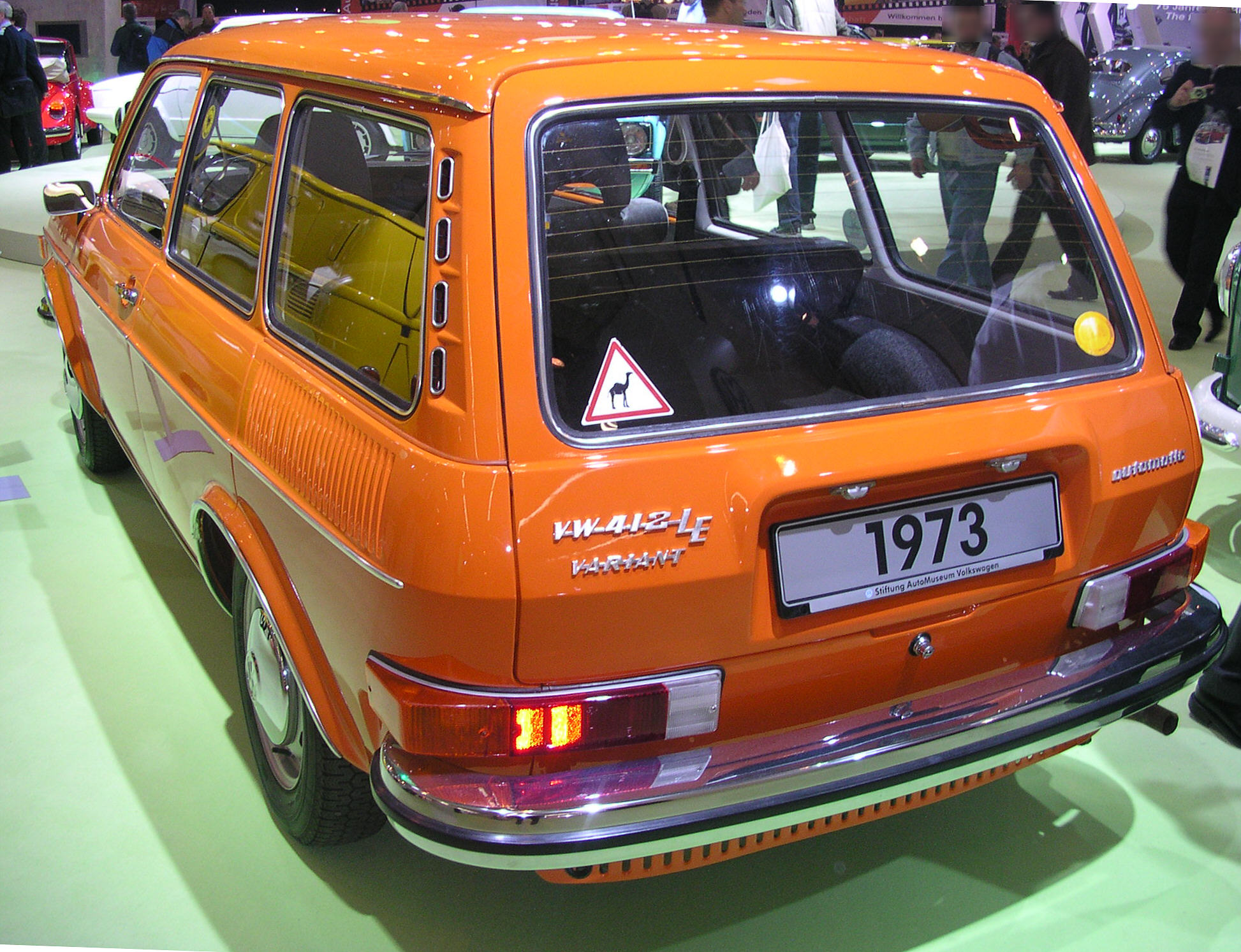 Essen Techno-Classica 2007, VW Variant 412